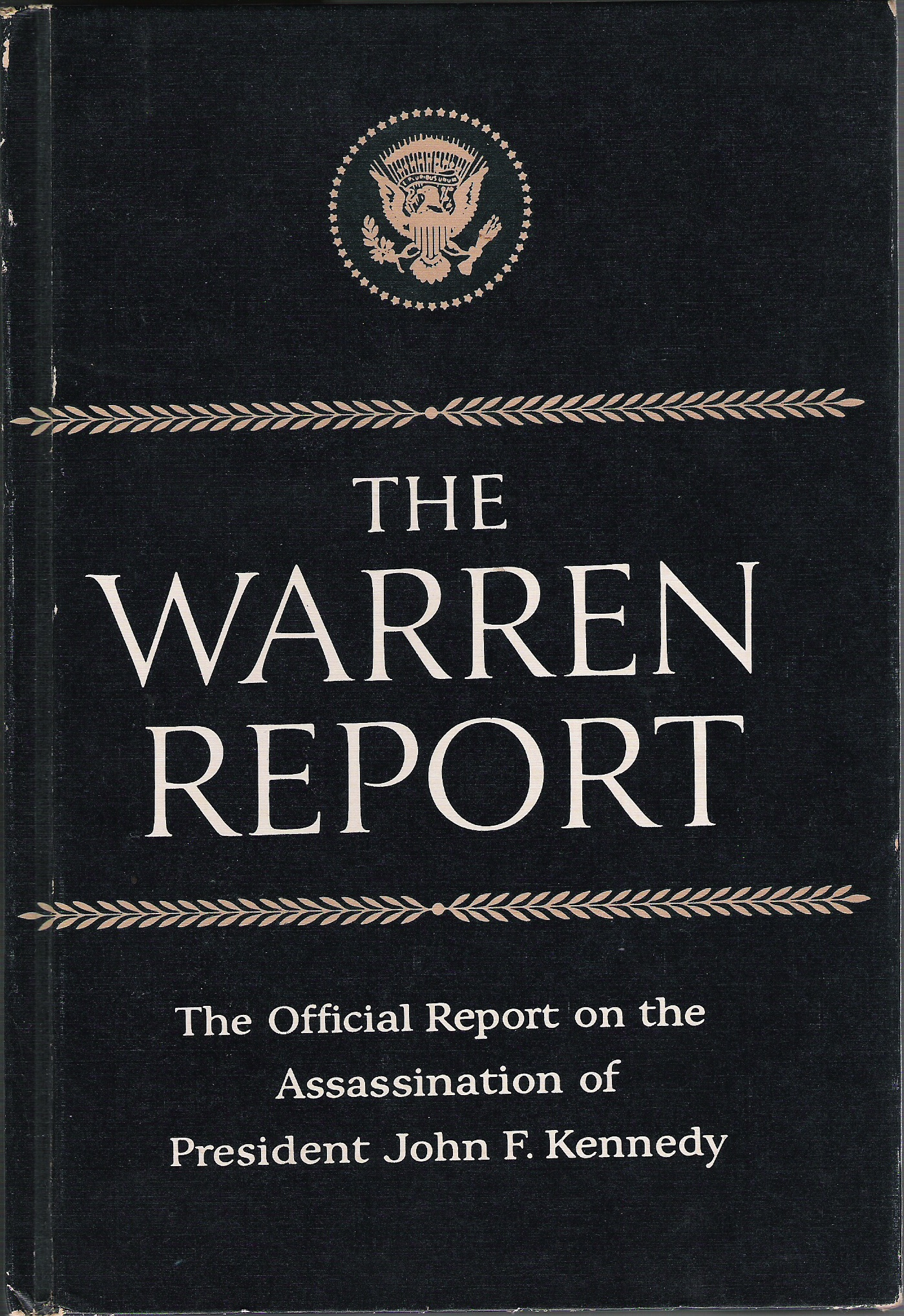 The Warren Report book cover. Transcripts from the U.S. Government Printing Office, reproduced in bound book form by the Associated Press.